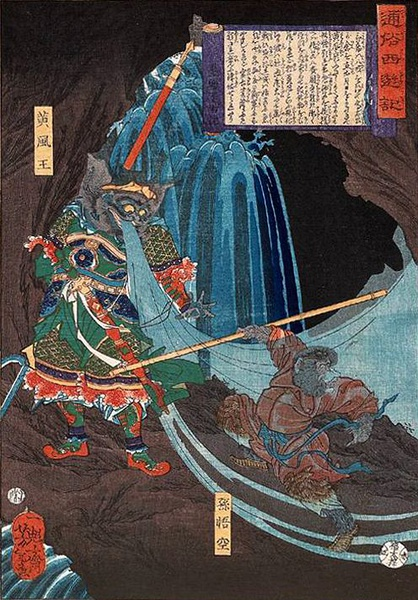 A scene of chapter 21 of Journey to the West. Sun Wukong fighting the demon of the yellow wind